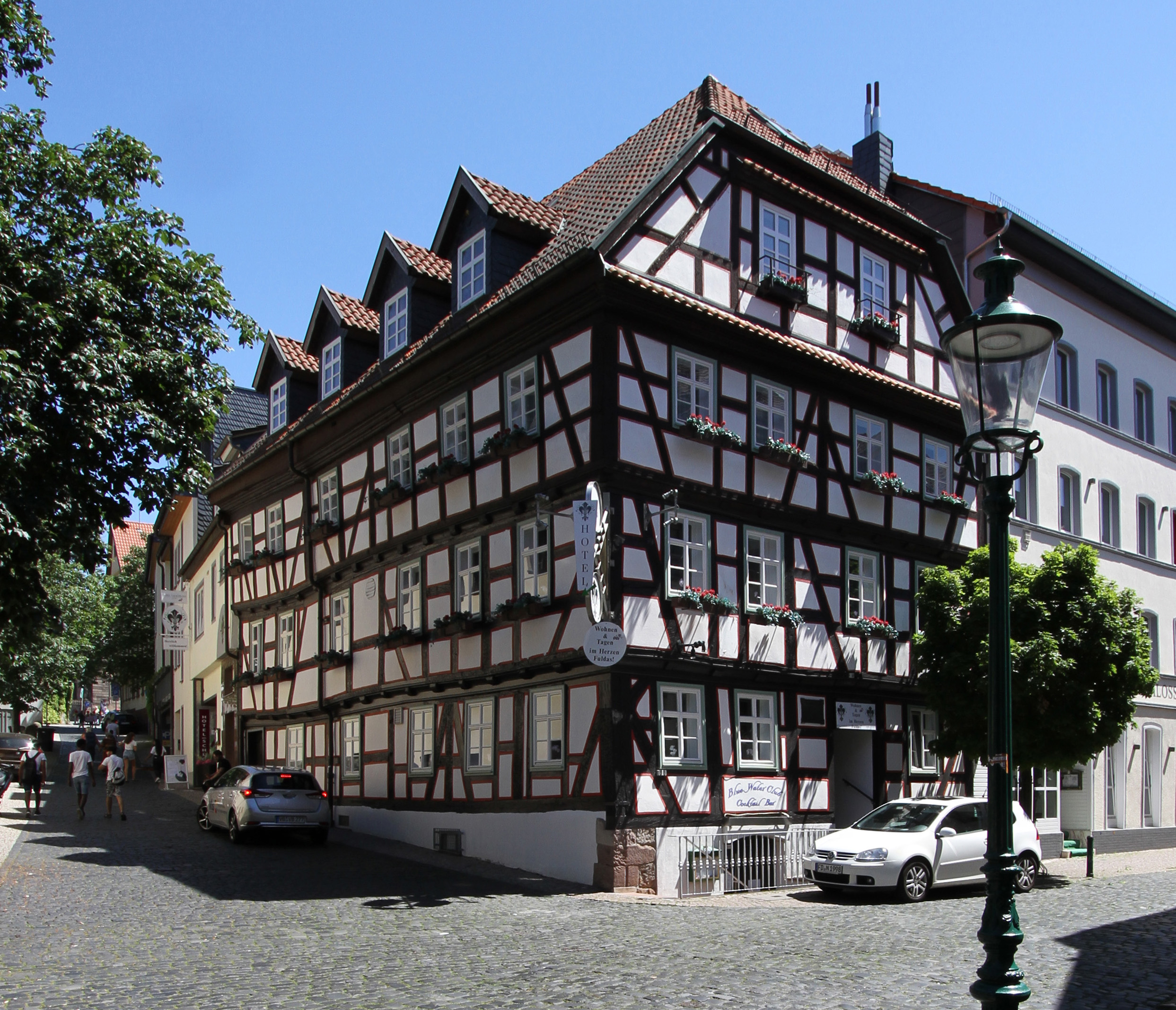 Birthplace of Ferdinand Braun in Fulda